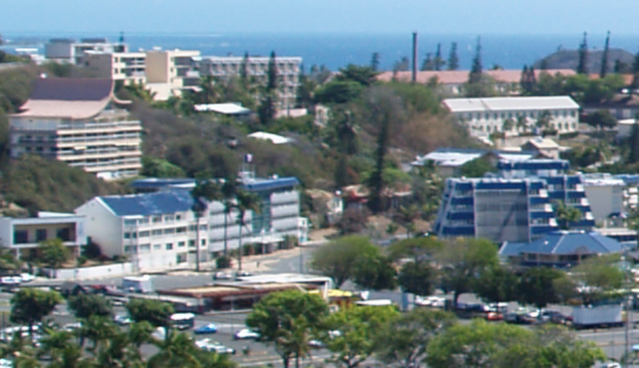 The district of "Artillerie" in Nouméa, New Caledonia, from File:Noumea centre 1402561139 375c811796 o.jpg.